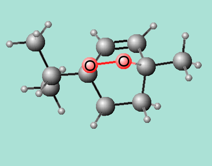 3D Chemical structure of the Ascaridole. Made with Corina Software